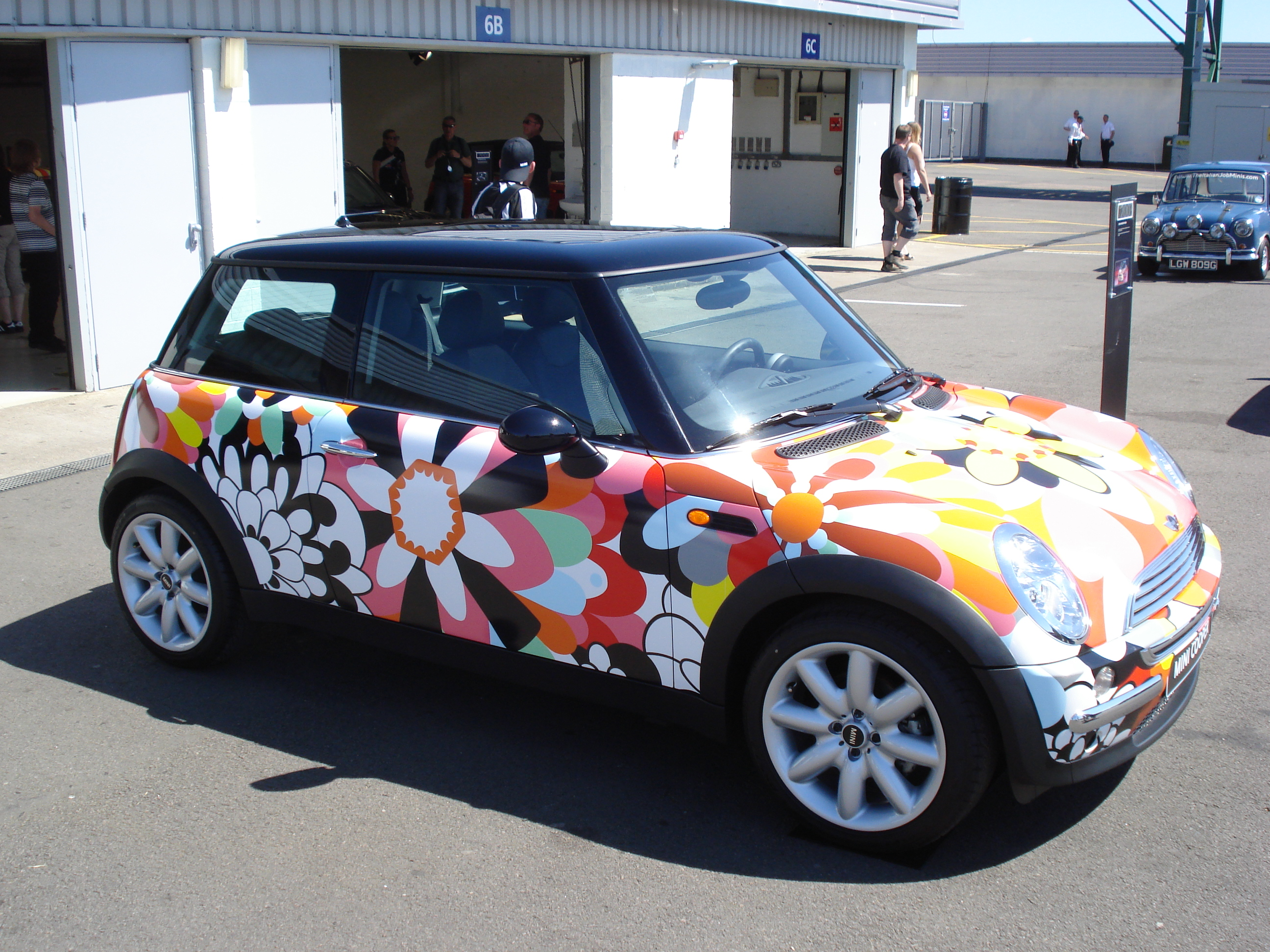 MINI Flower Power